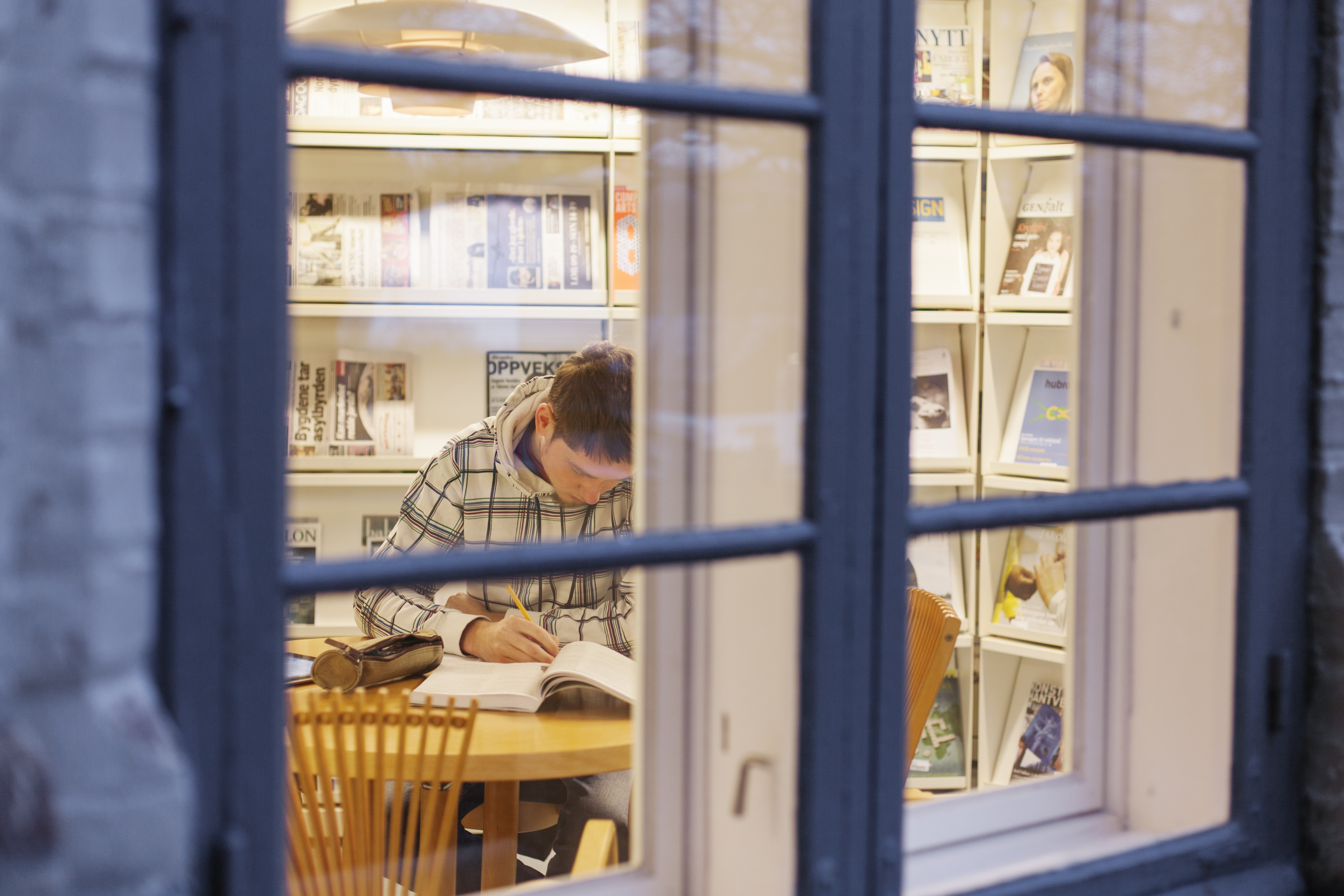 View through the window into the NTNU University Library, Rotvoll branch. Norwegian University of Science and Technology, Trondheim